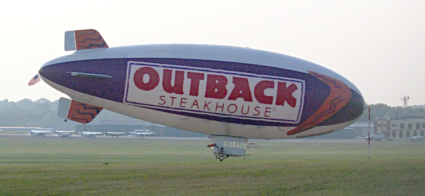 This was parked at Timmerman airport in Milwaukee, Wisconsin.